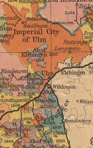 Map showing the Imperial Free City of Ulm, Wiblingen and Elchingen Imperial Abbeys and County of Fugger, with the Danube shown running through the centre of the image.